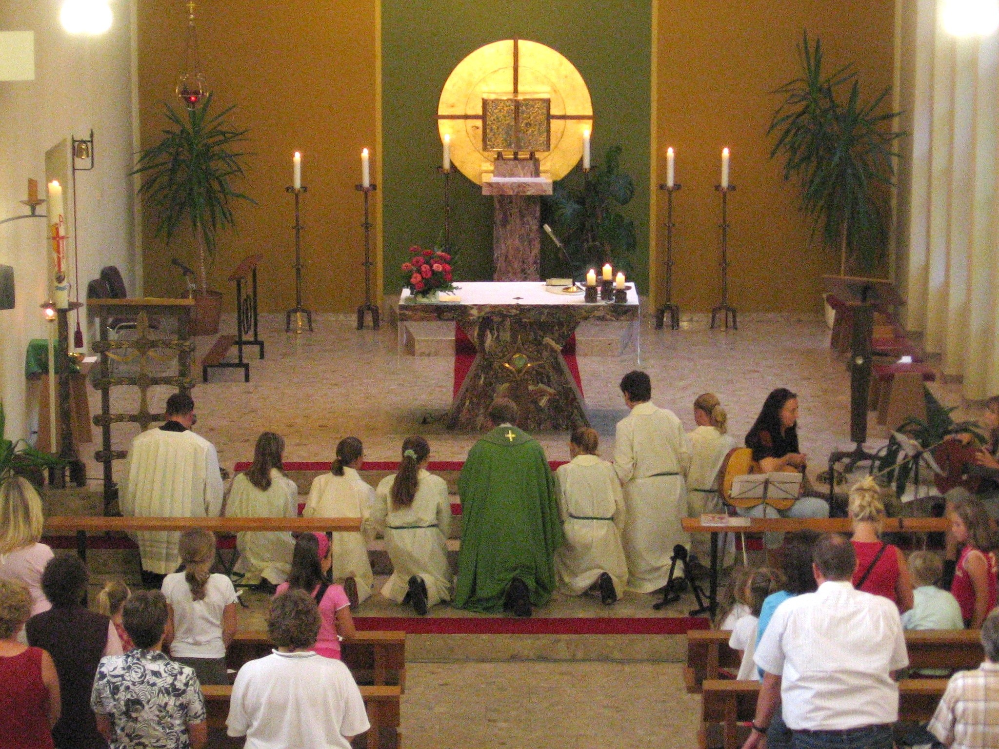 St. Maria Parish Church, Sehnde, Holy Mass